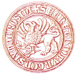 Old seal of Rostock